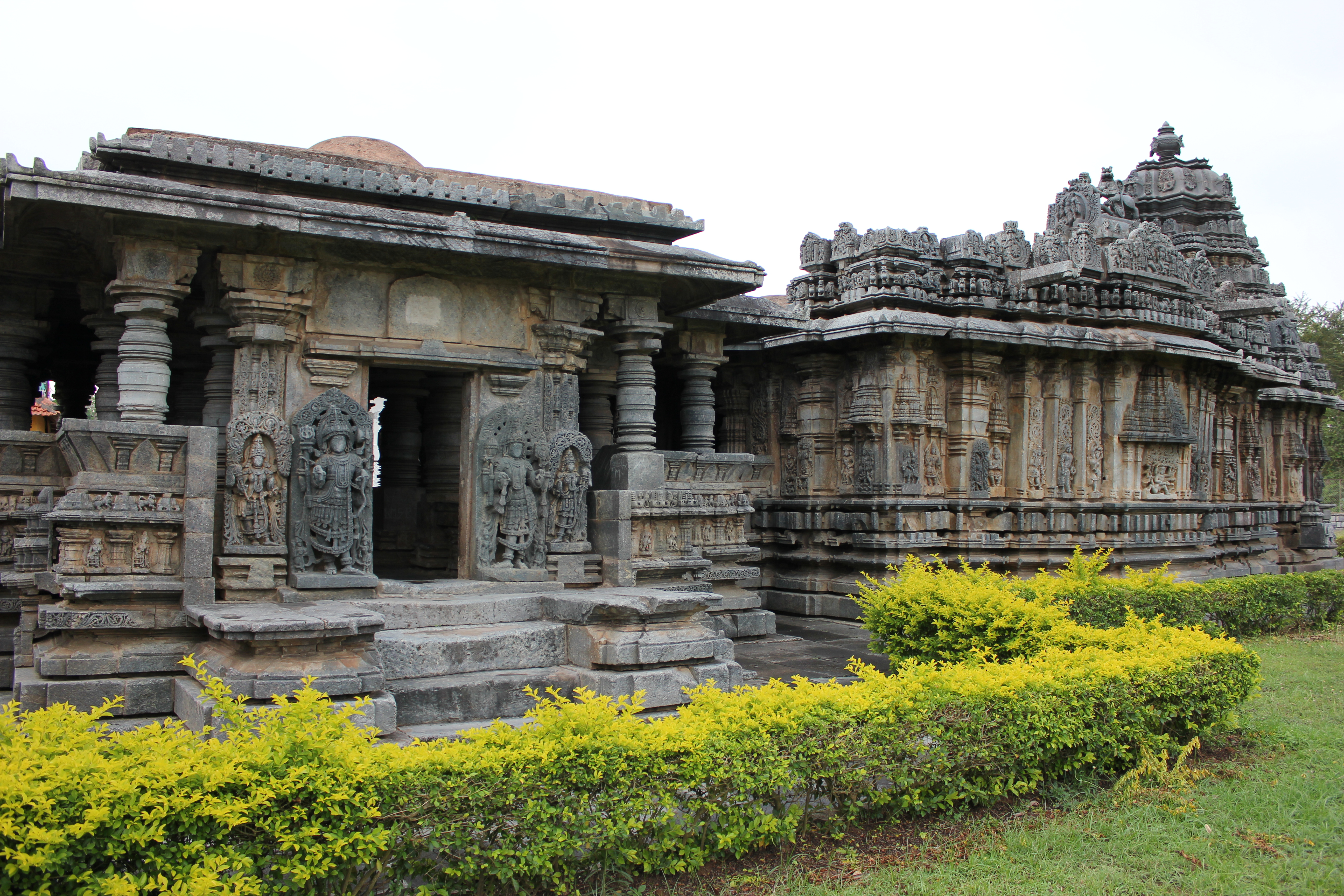 This photograph was taken by me in Koravangala, Hassan district, Karnataka state, India. The Bucesvara temple (also spelt Bucheshwara or Bucheshvara) is a elegant specimen of 12th century of Hoysala architecture. The temple was built in 1173 A.D. by an officer called Buci to celebrate the coronation of Hoysala King Veera Ballala II.